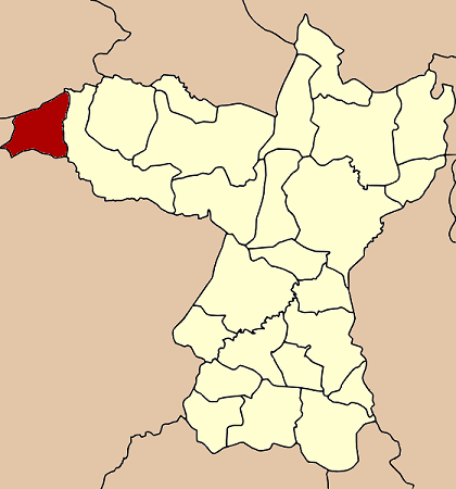 Map of Khon Kaen Province, Thailand, highlighting the district Phu Pha Man (อำเภอภูผาม่าน)